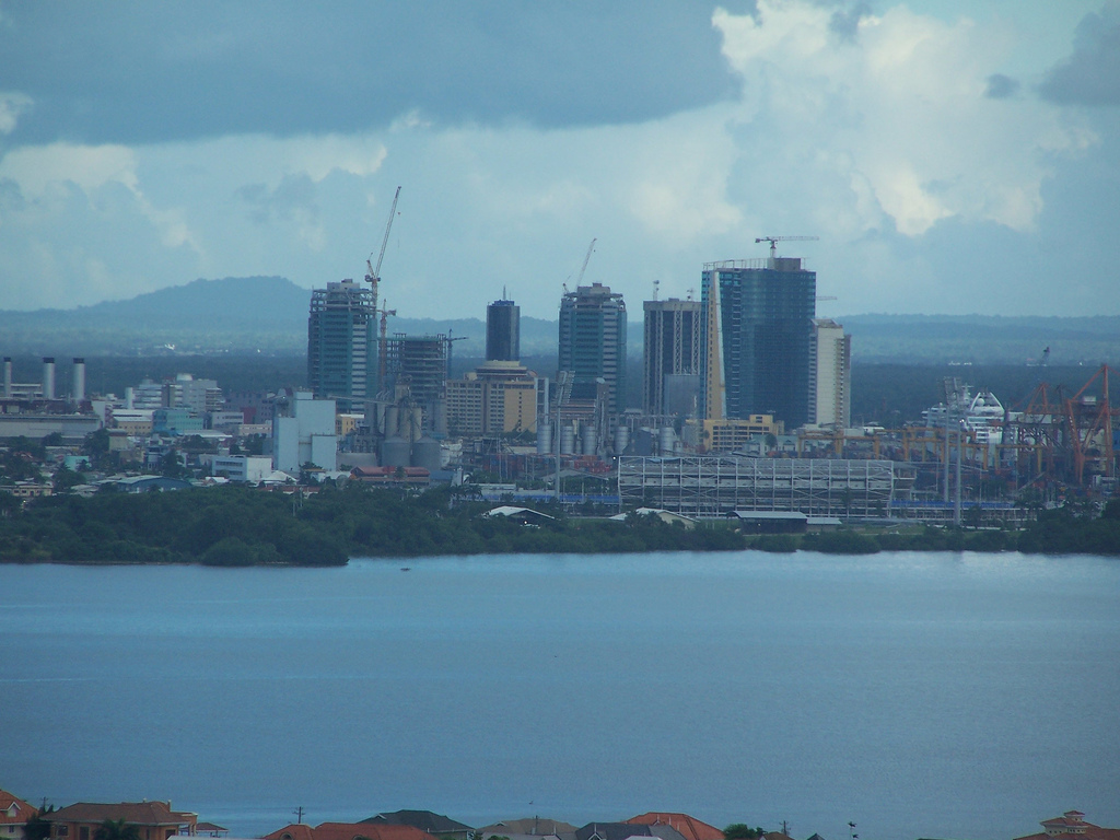 port of spain harbour